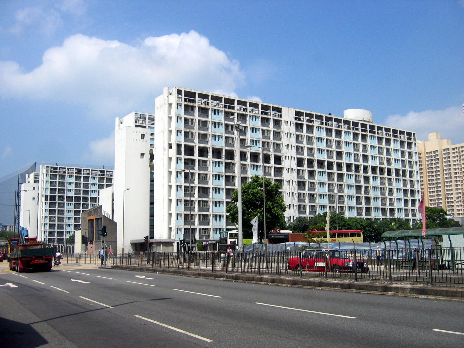 HK Cheung Sha Wan Police Quarters